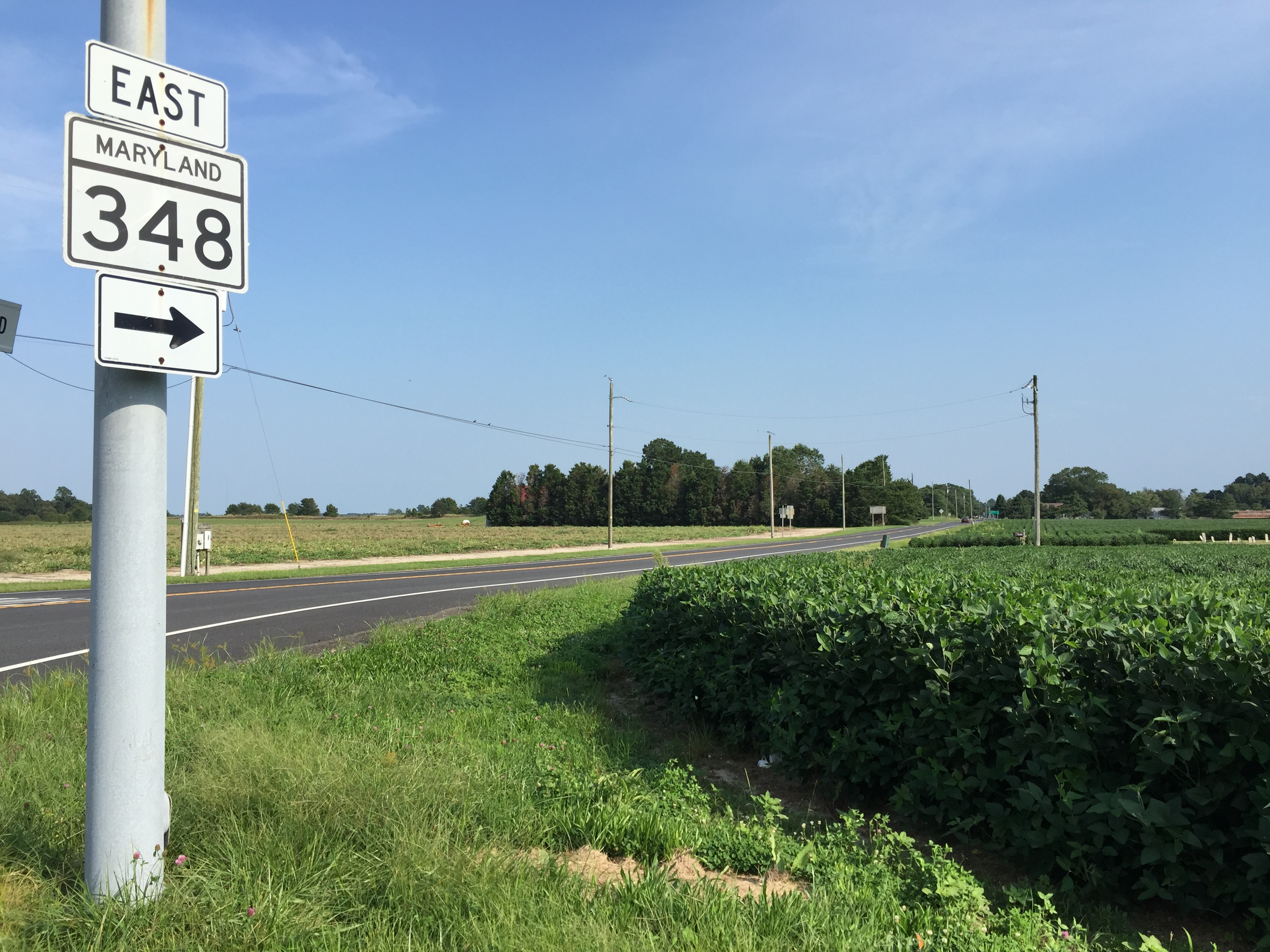 View east along Maryland State Route 348 (Laurel Road) at Maryland State Route 313 (Sharptown Road) just south of Sharptown in Wicomico County, Maryland